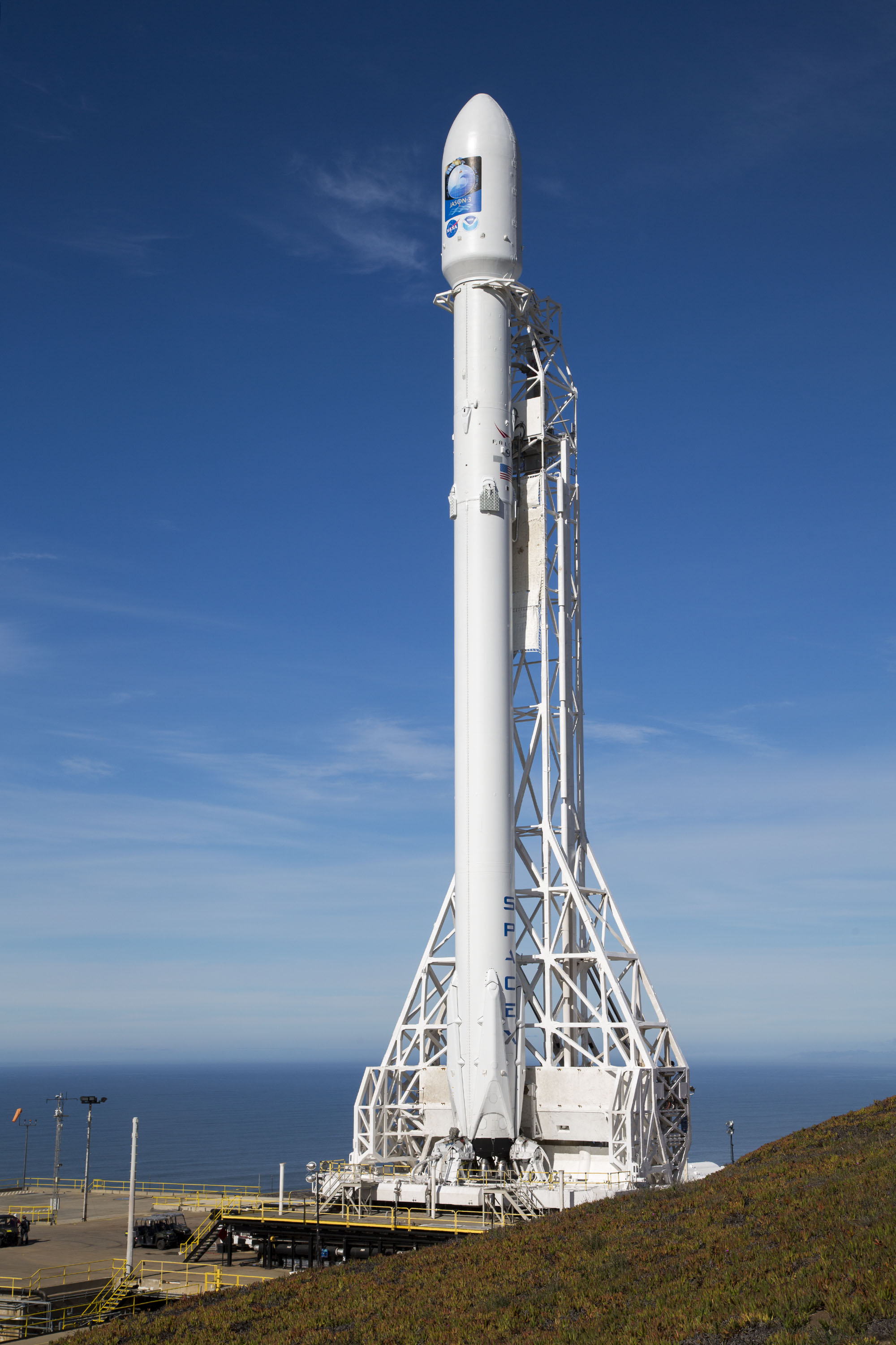 Falcon 9 rocket is vertical in advance of Jason-3 launch